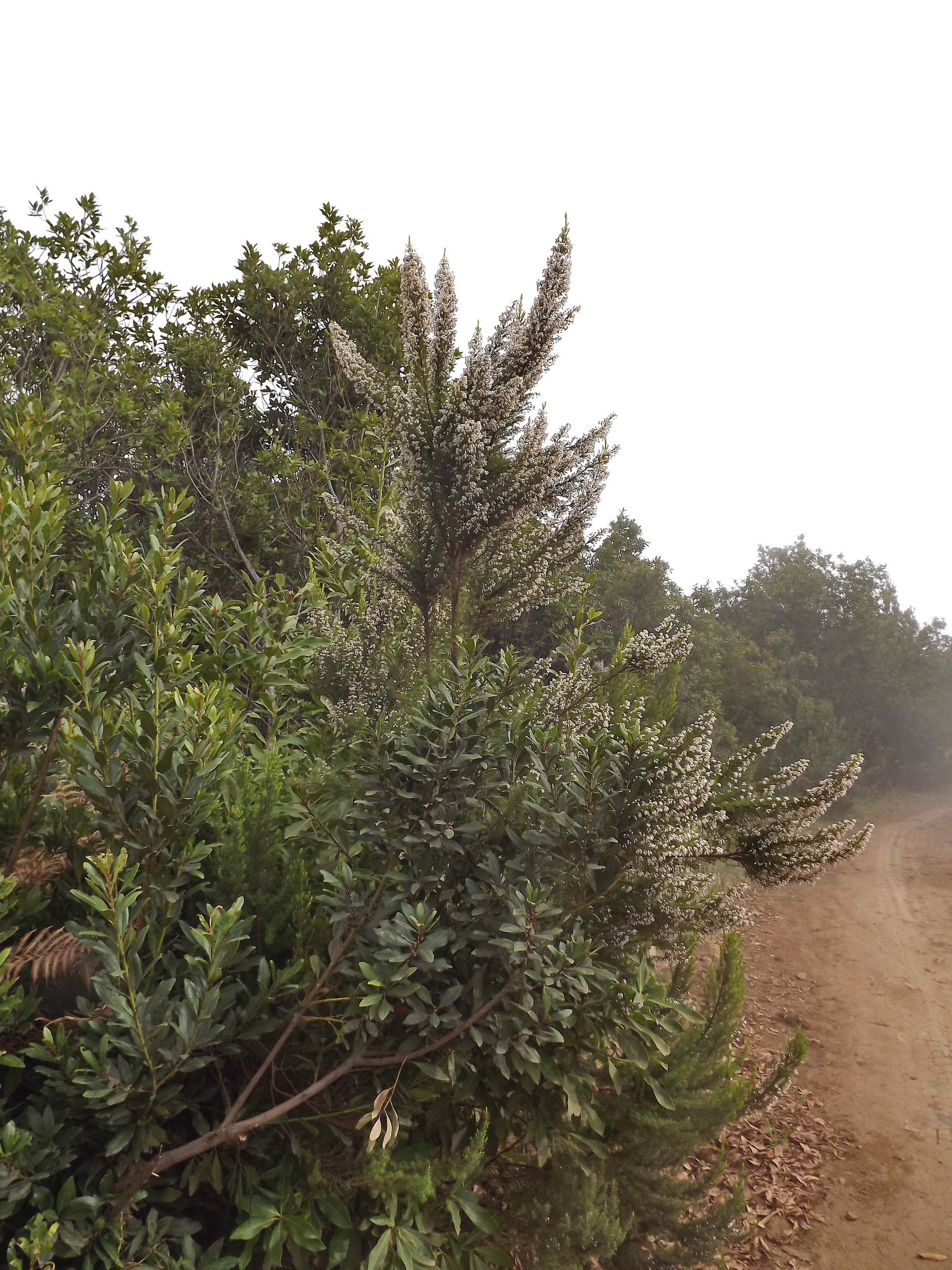 Fayal-brezal (Myrico fayae-Ericion arboreae) on Cumbre Nueva, La Palma